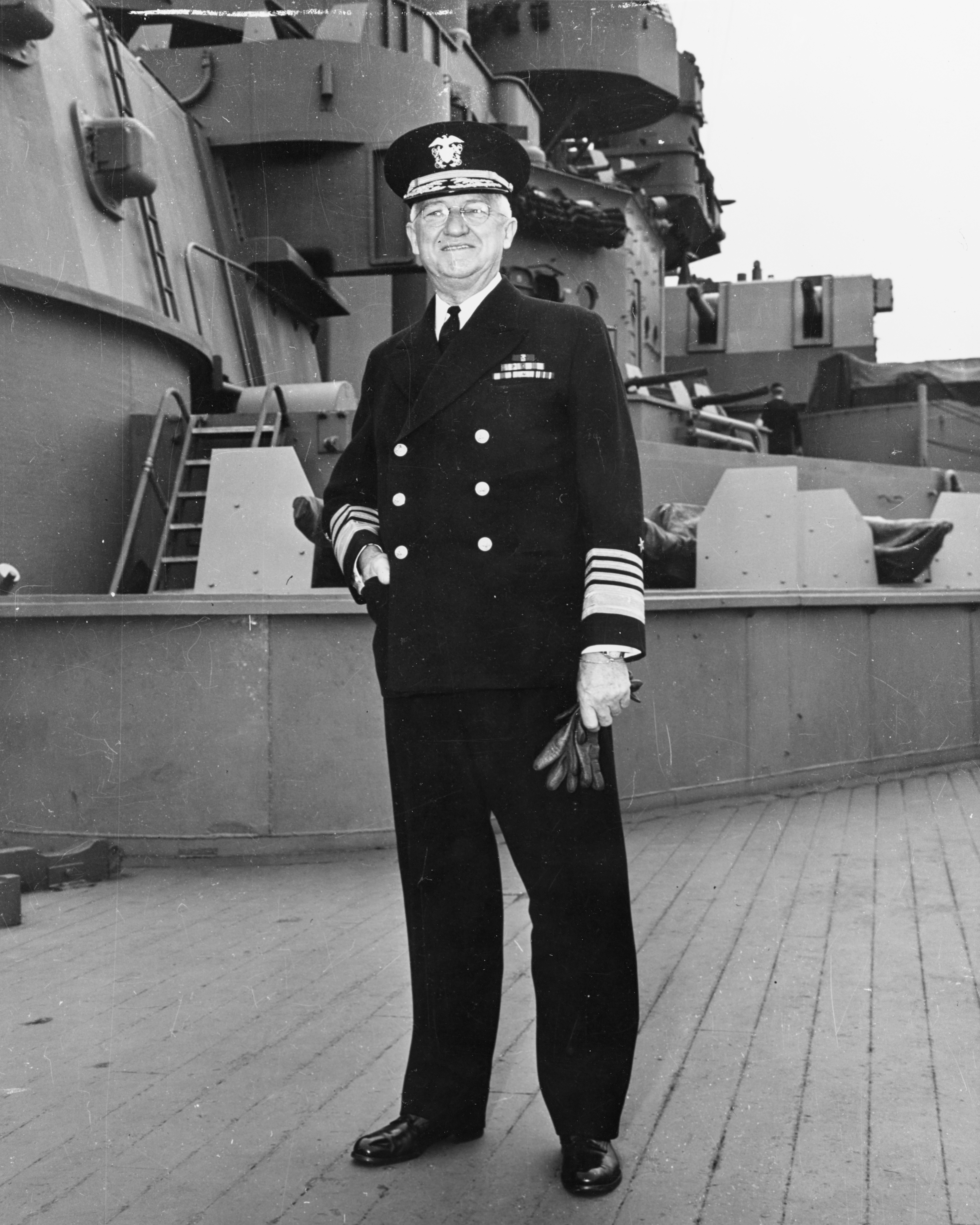 On board a U.S. Navy battleship at Scapa Flow, Orkney Islands, in 1943